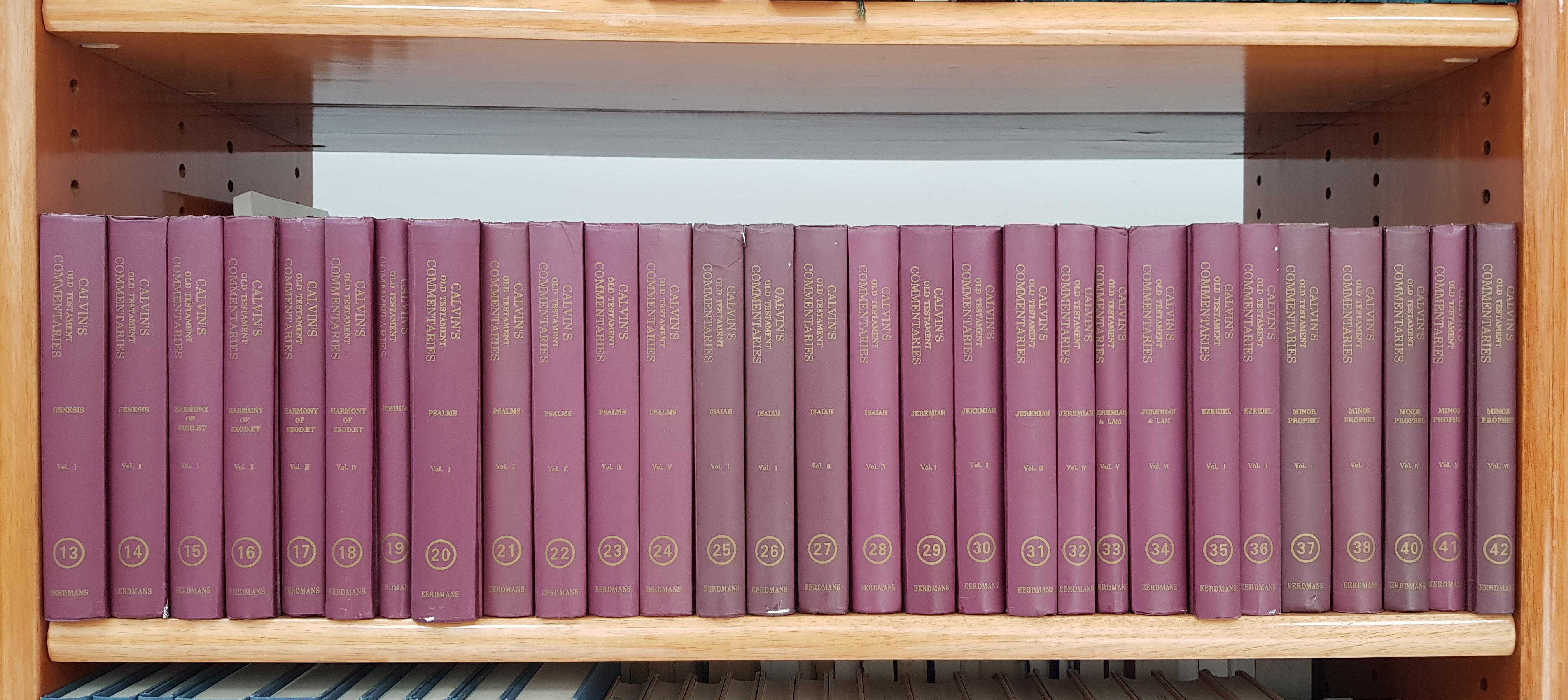 Commentary of John Calvin